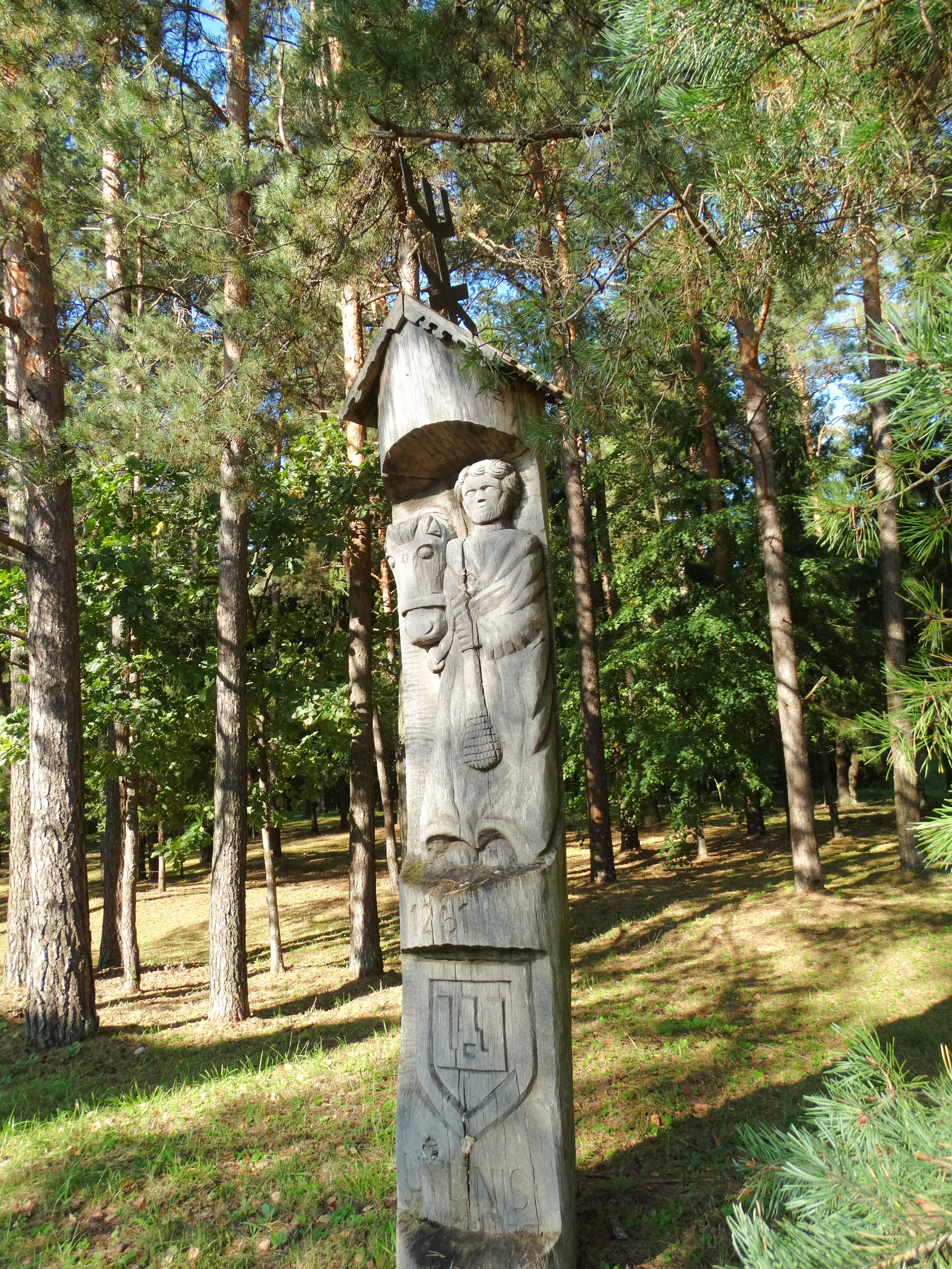 Forest enterprise, Utena, Lithuania